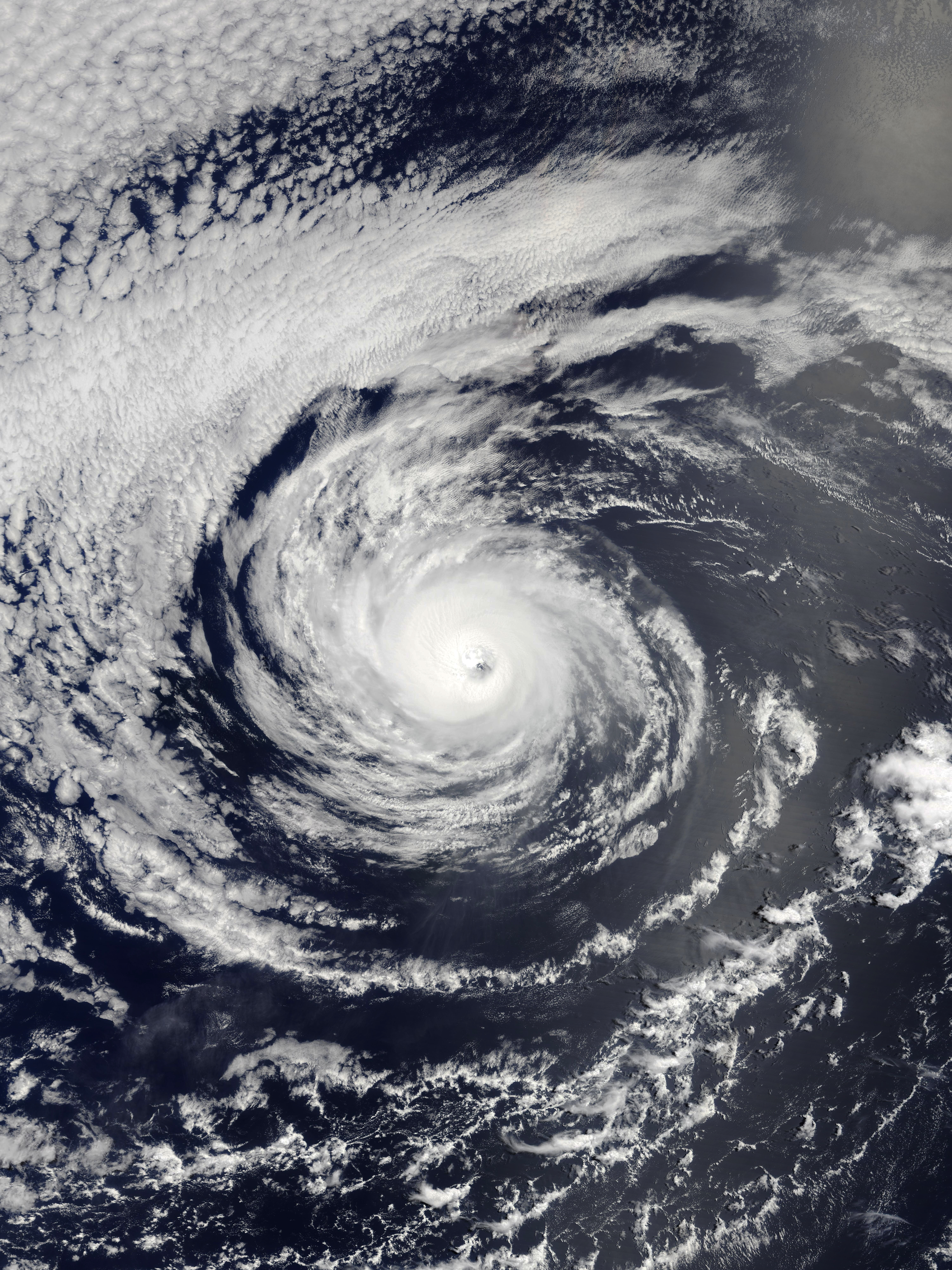 Hurricane Darby shortly before its peak intensity as a major hurricane on July 16, 2016